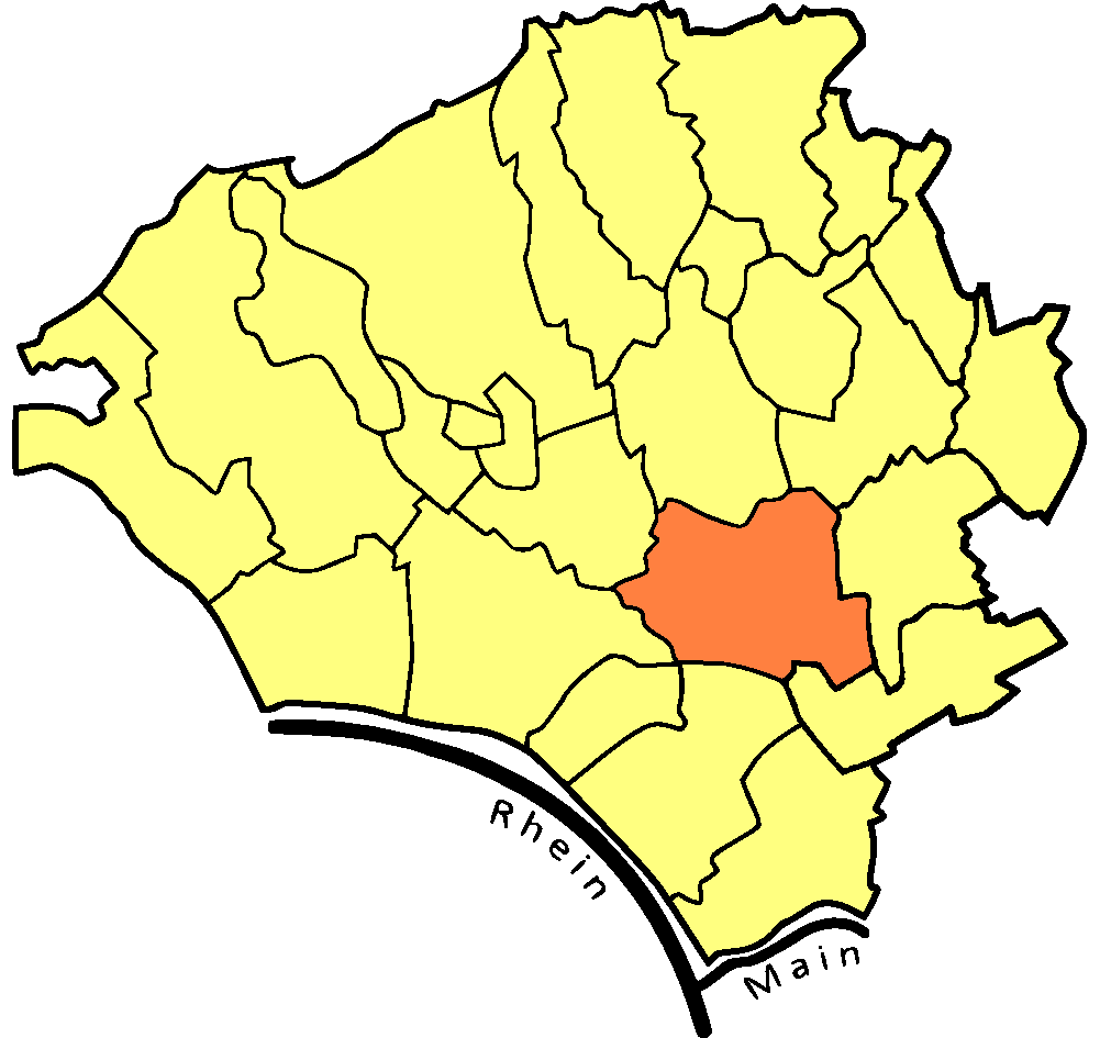 Map of Wiesbaden showing the location of Erbenheim